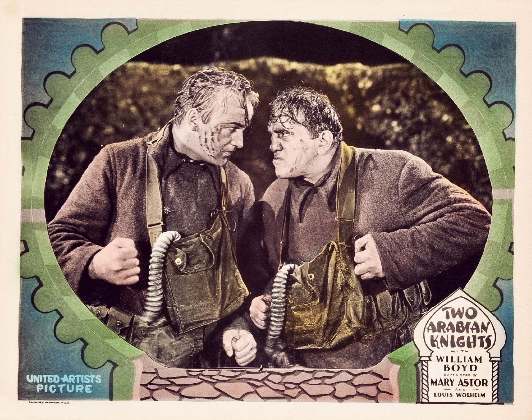 Lobby card for the American comedy film Two Arabian Knights (1927). The item has no copyright markings on it as can be seen in the links above. At bottom left is Country of origin USA.